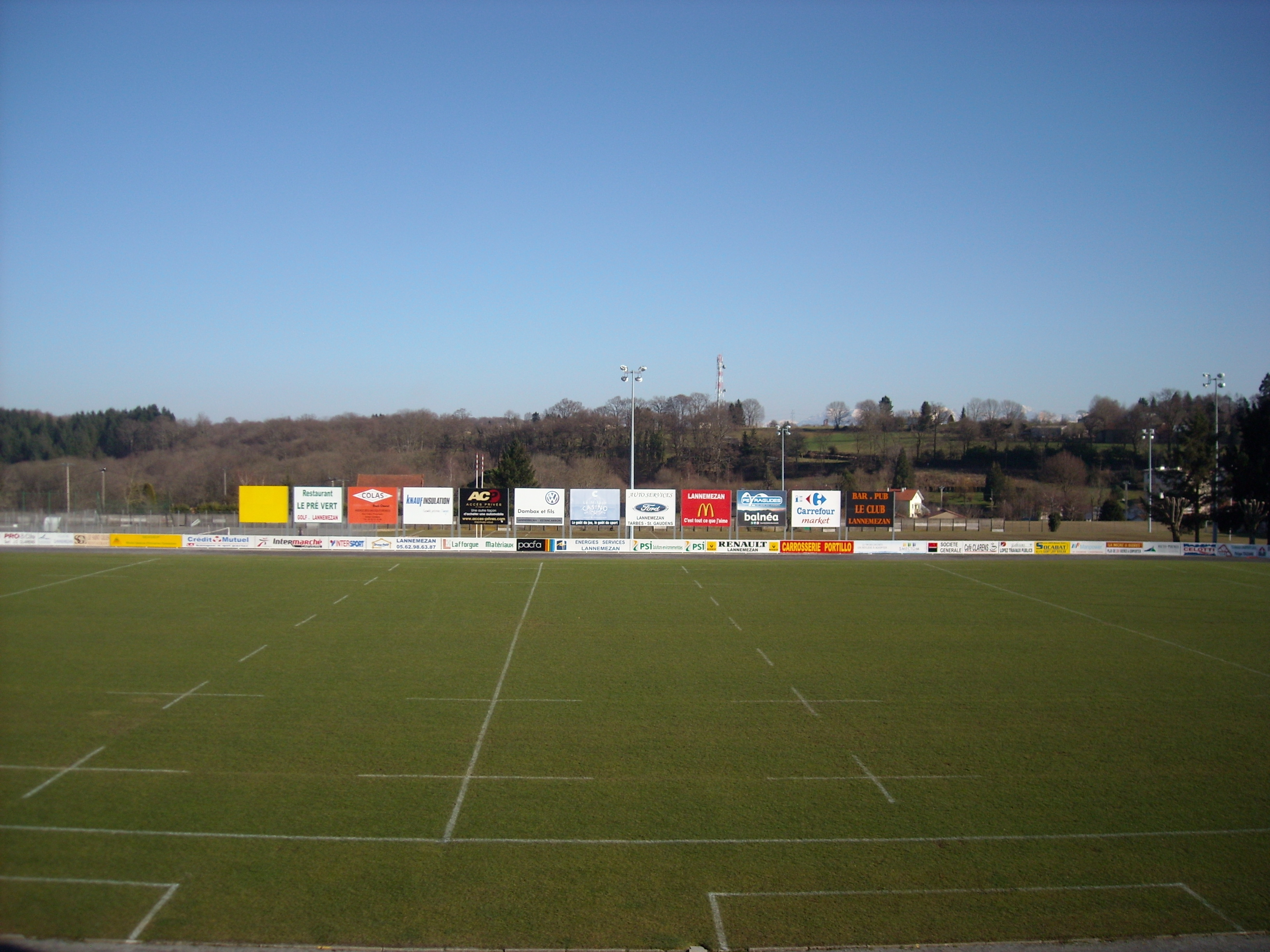 Stade François Sarrat in Lannemezan, France.